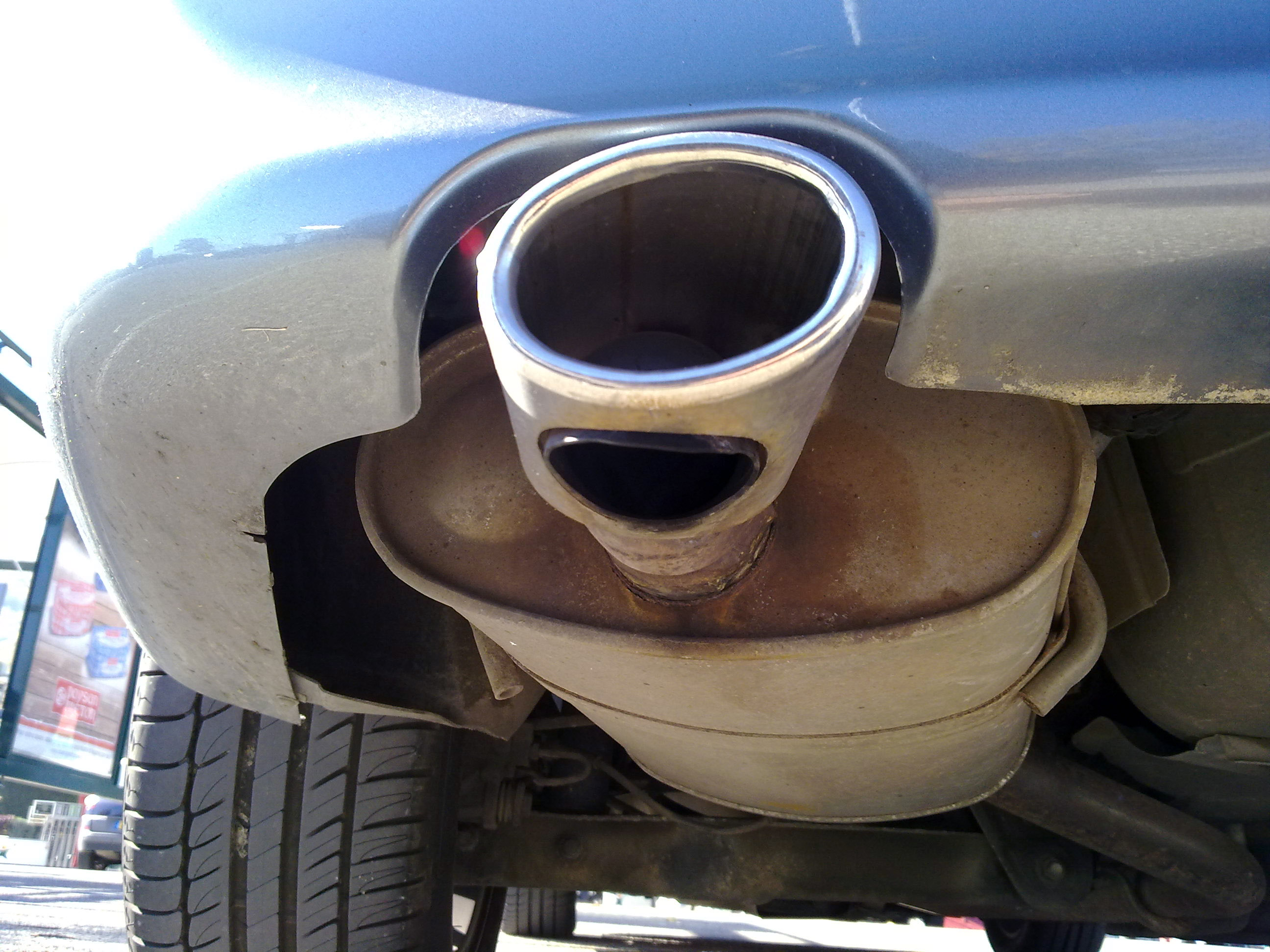 Peugeot HDi exhaust